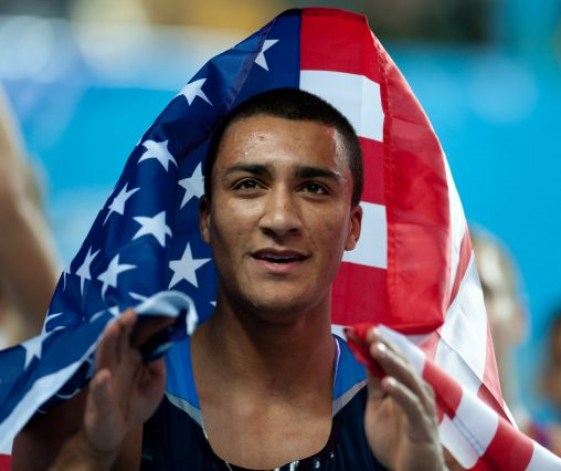 Aston Eaton, Istambul 2012